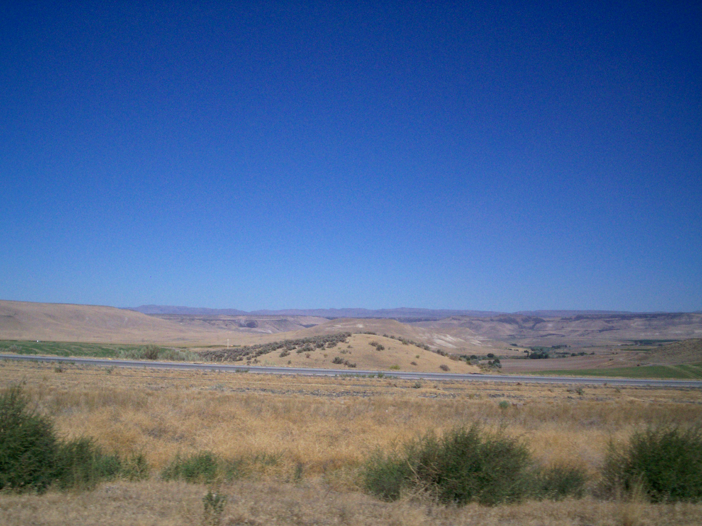 Snake River Plain on Interstate 84 in Idaho.